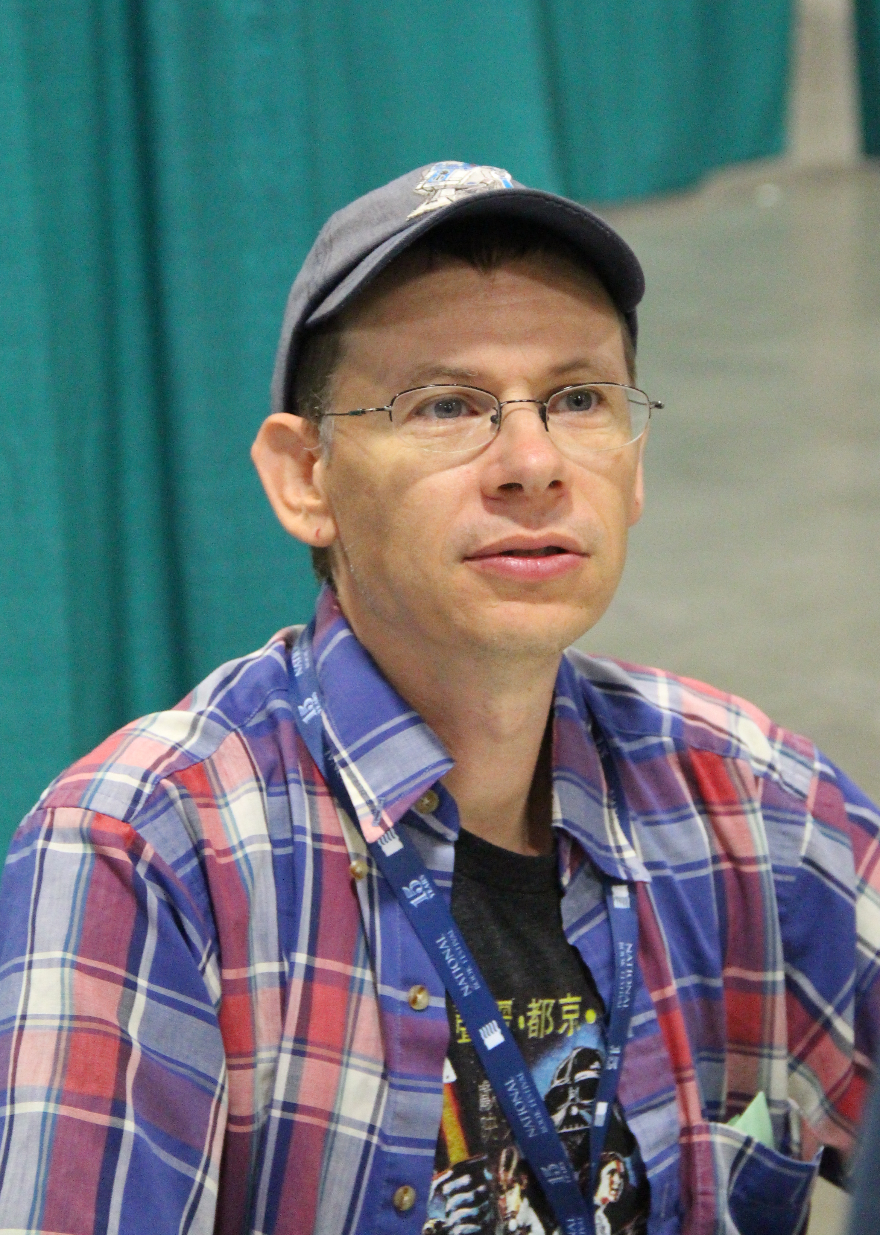 2015 Library of Congress National Book Festival September 5, 2015 Washington, DC